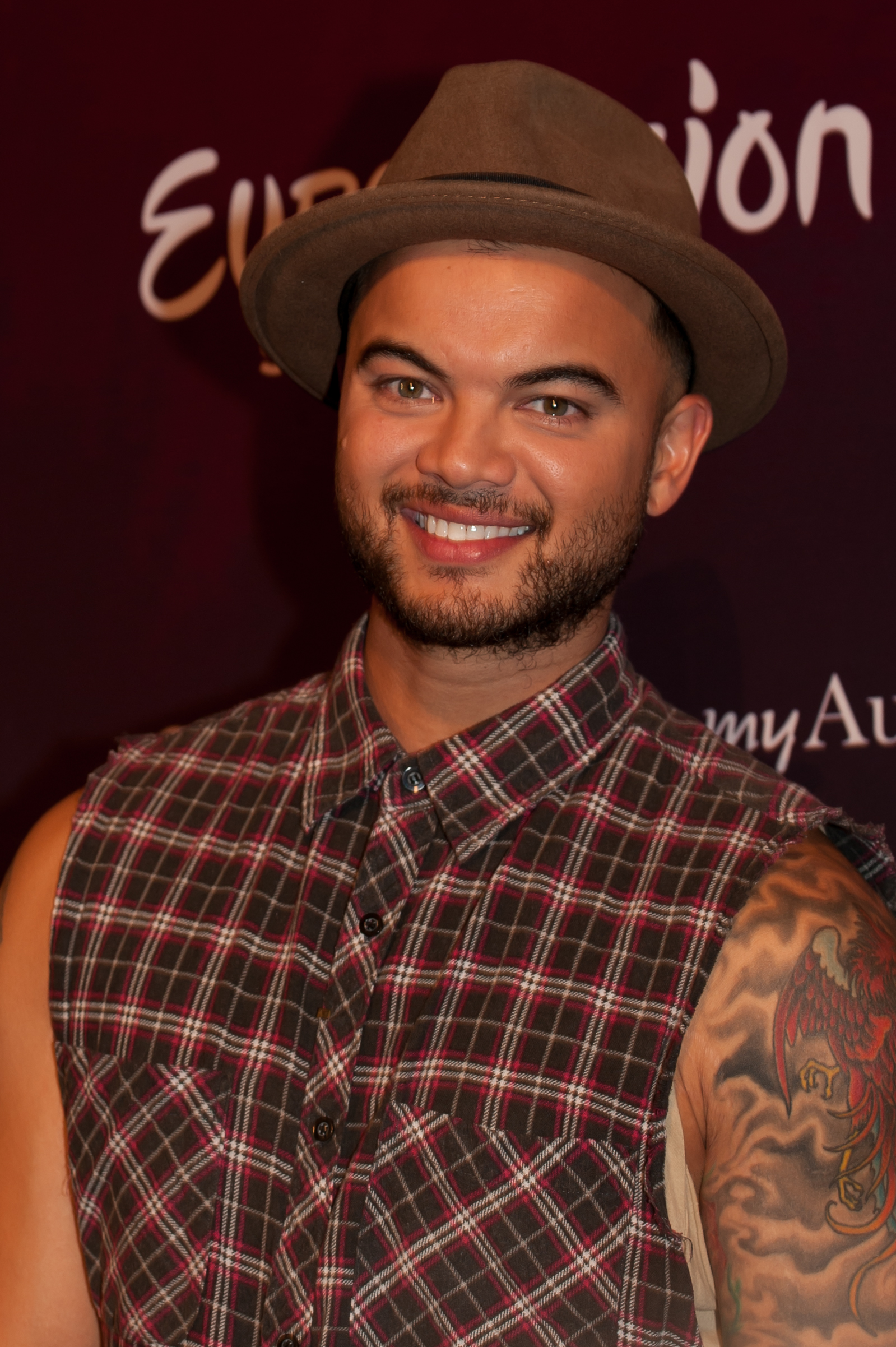 Eurovision Song Contest Vienna 2015: Guy Sebastian